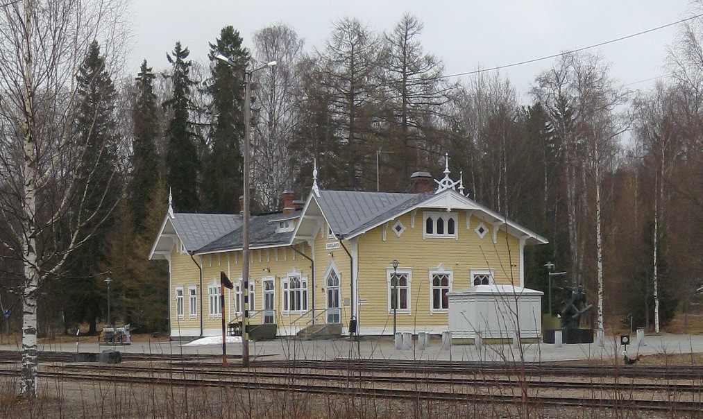 Suolahti Old railway station, Suolahti, Äänekoski, Finland